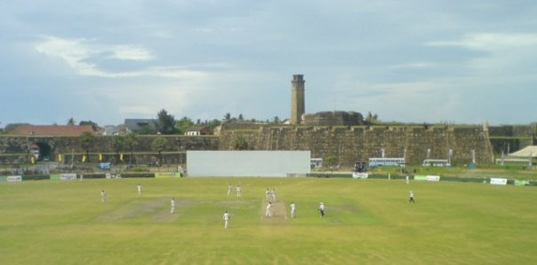 A photograph taken at Battle of Two Cities 2008. සිංහල: si:දෙනුවර සටන 2008 දී ගත් ඡායාරූපයකි.